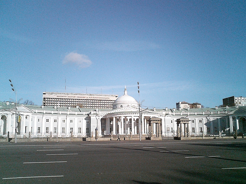 Sklifosovsky Medical Institute in Moscow. Before the Hospital of count Sheremetev (in Russian - Strannopriimny Dom)